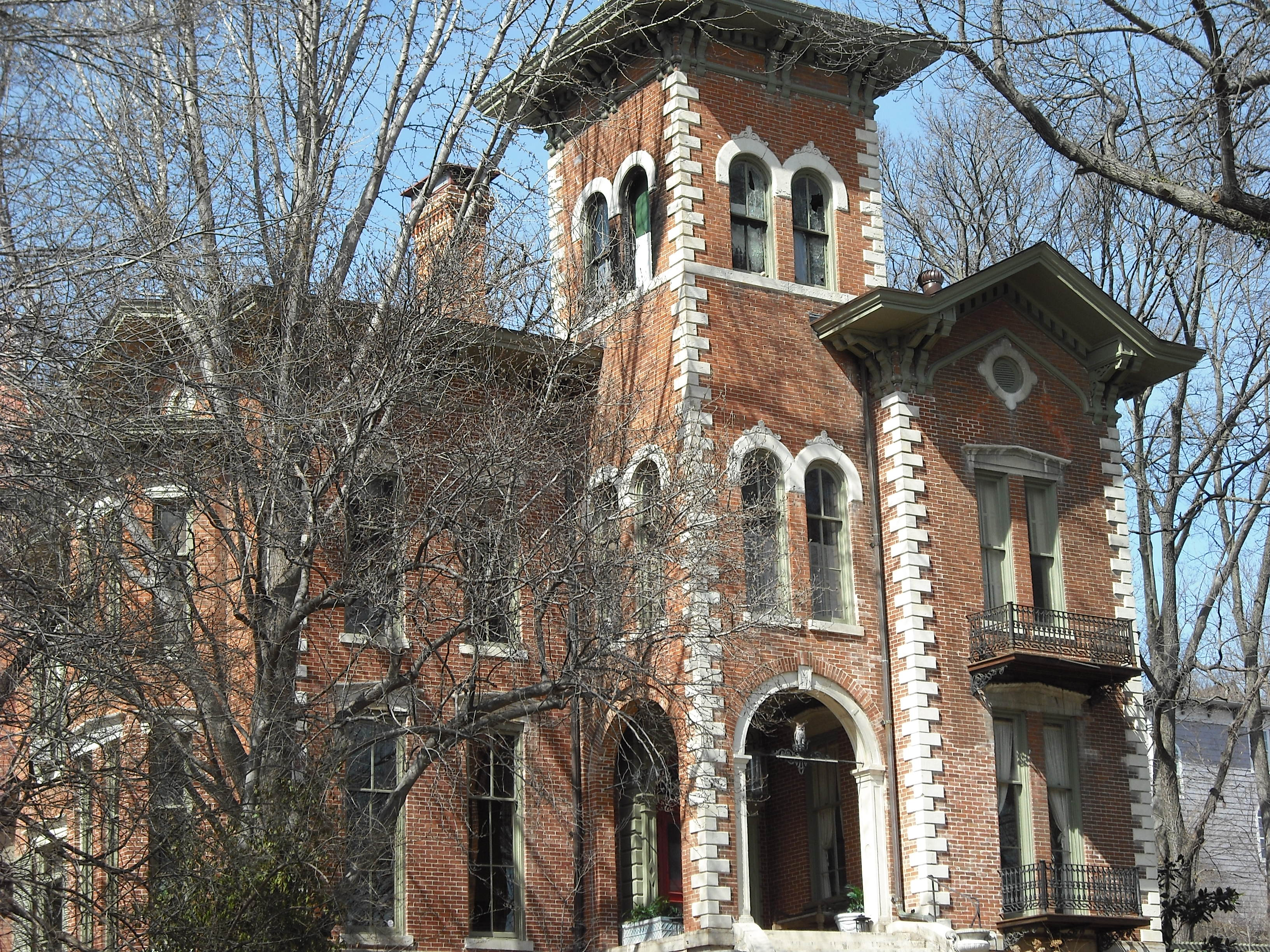 Ludington-Thacher House on Tennessee Street in Lawrence, KS. On NRHP. Broken windows in tower are from a fire that occurred in 2008.